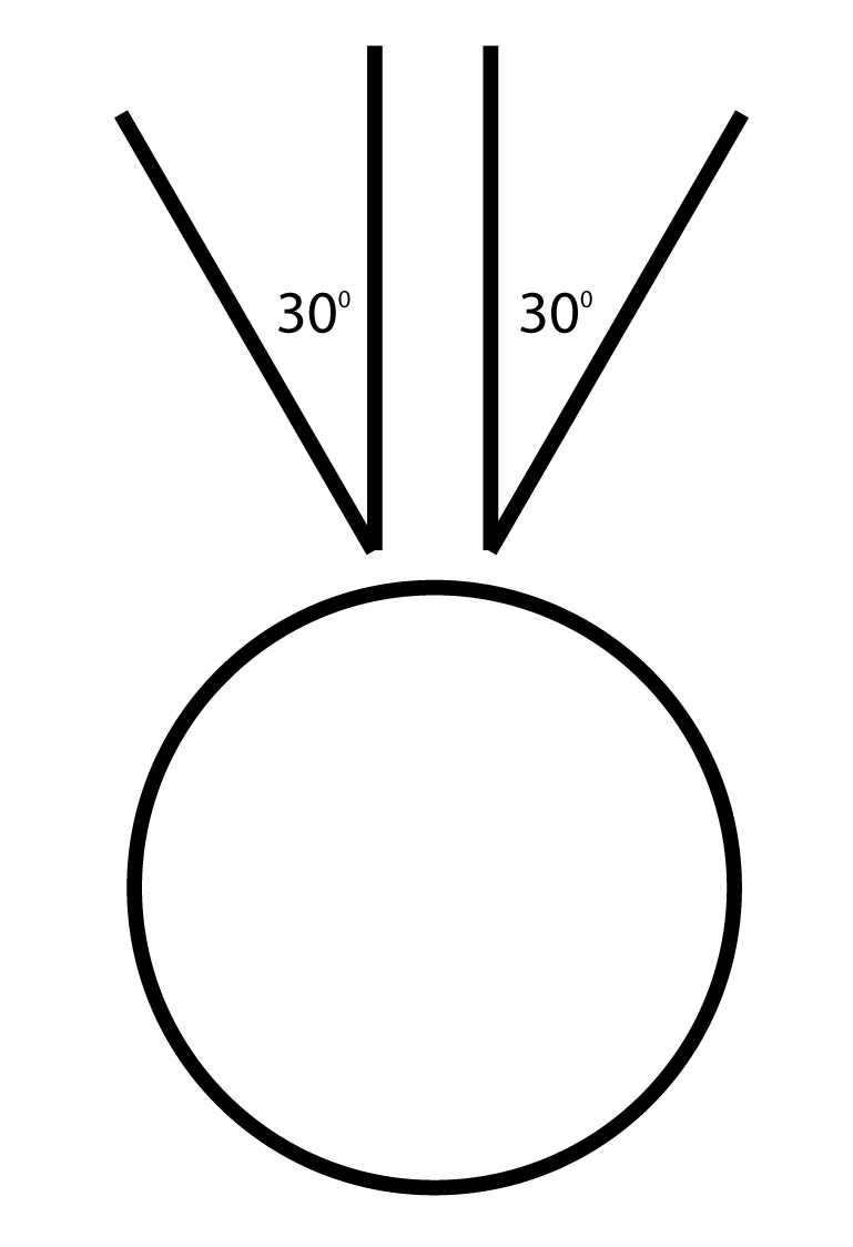 this image represents the spacial relationship of a binocular experience. the image is useful for explaining the 30 degree rule as a factor in editing pictures for temporal continuity.